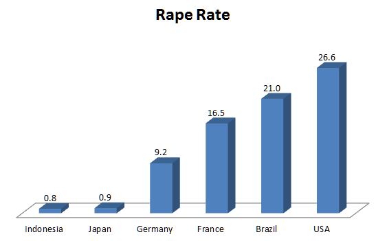 UNODC : Rape Rate Per 100,000 Population (2011)